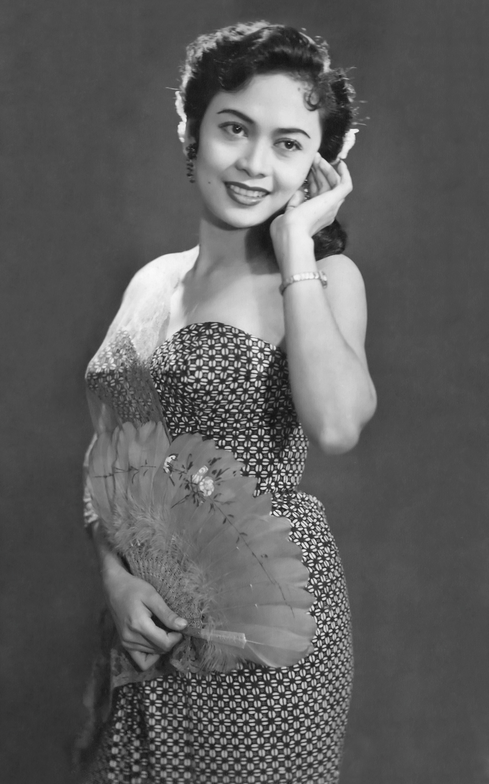 Indonesian actress Ermina Zaenah in a silk finish three-quarter portrait (c 1960). Printed as a postcard. Restored by uploader. Name has been removed for better display in articles.